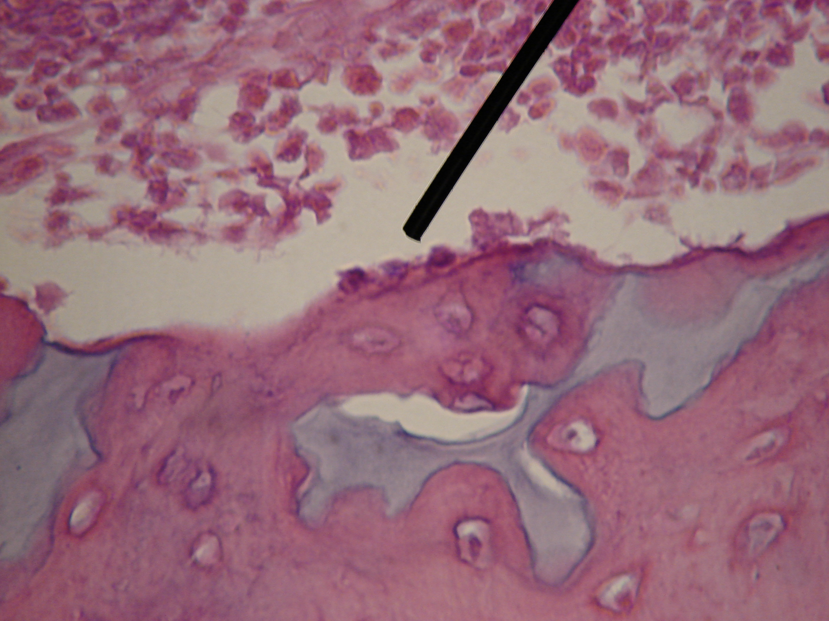 Three osteoblast visible at 400x in developing bone